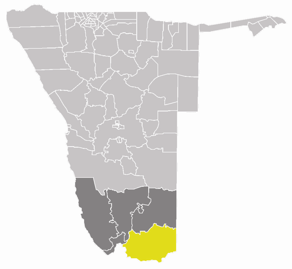 map of the Karasburg constituency within the Karas region, Namibia